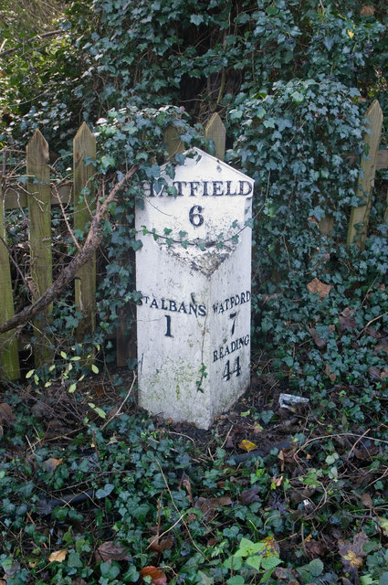 Close up of the cast iron milepost seen in St Stephen's Hill , St Albans ,England. Placed by the Hatfield and Reading Turnpike Trust.